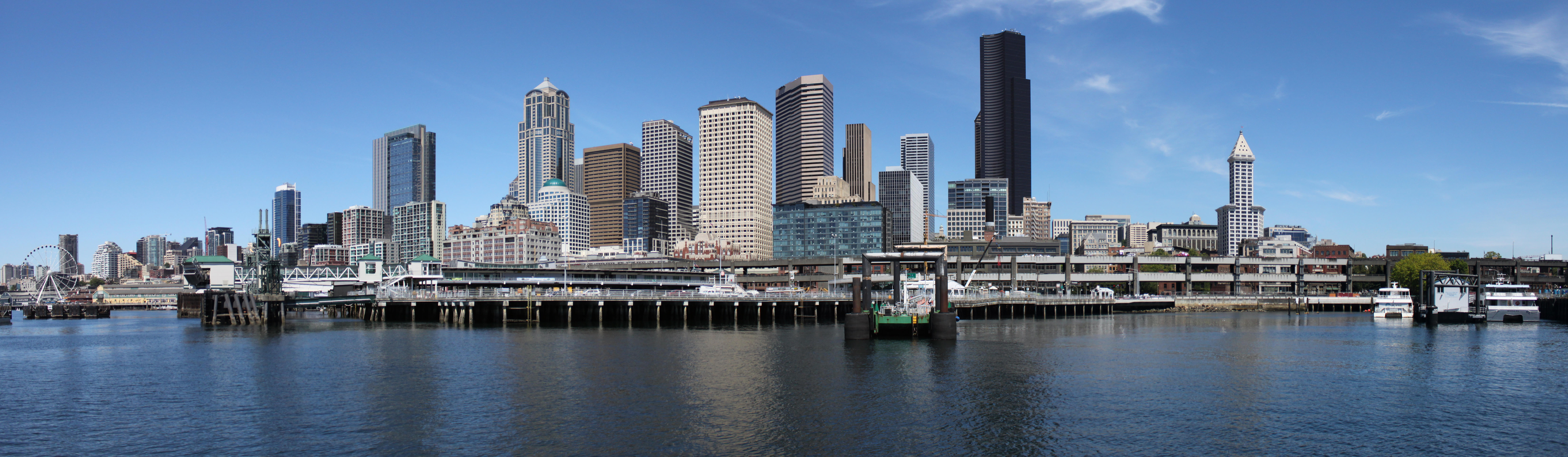 Colman Dock and water taxi terminal panorama